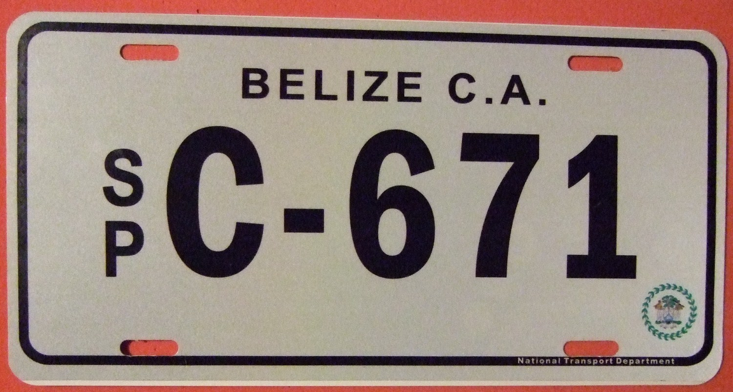 SP denotes this license plate, a passenger or regular car license from San Pedro, Belize. This plate is flat, and reflective.